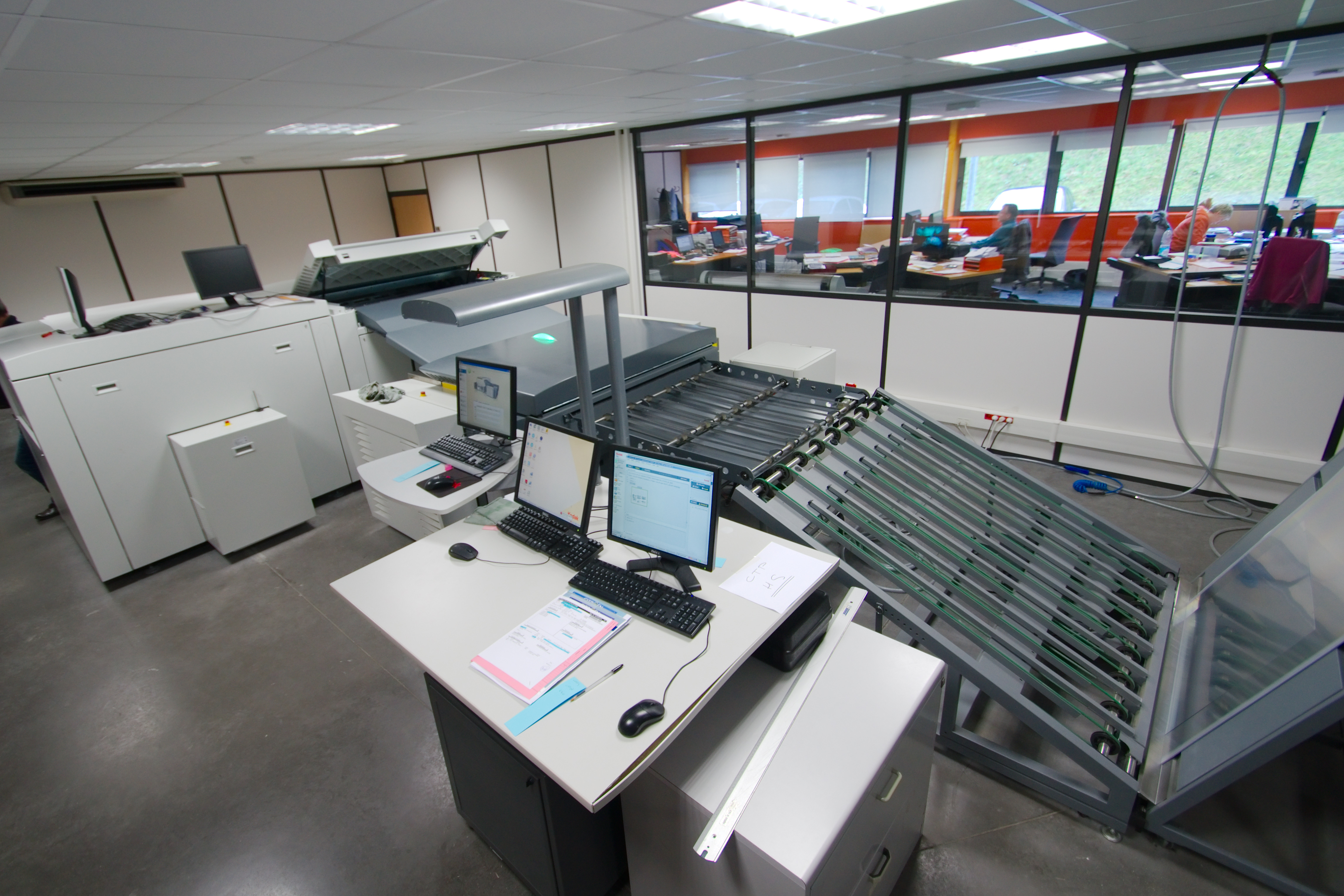 Kodak Magnus 800 Platesetter, at printing press from Iropa in Saint-Étienne-du-Rouvray.